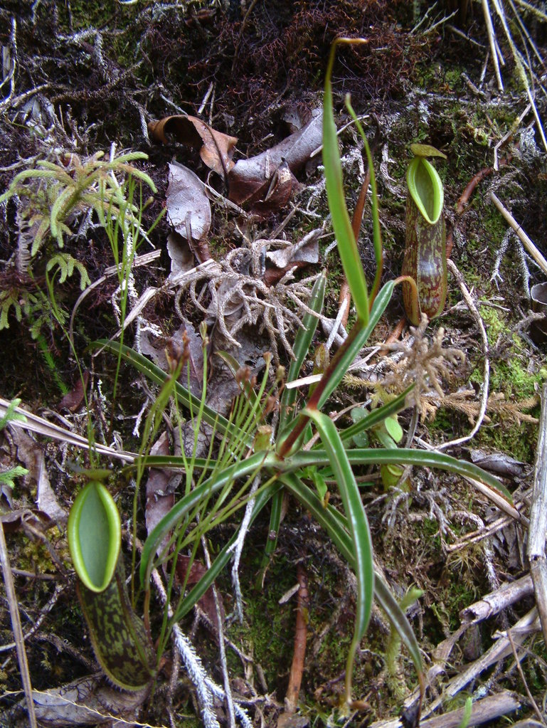 Nepenthes tentaculata from Sulawesi growing at an elevation of around 1900 m